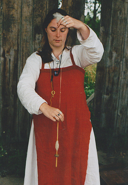 Dressed viking woman spinning the drop spindle